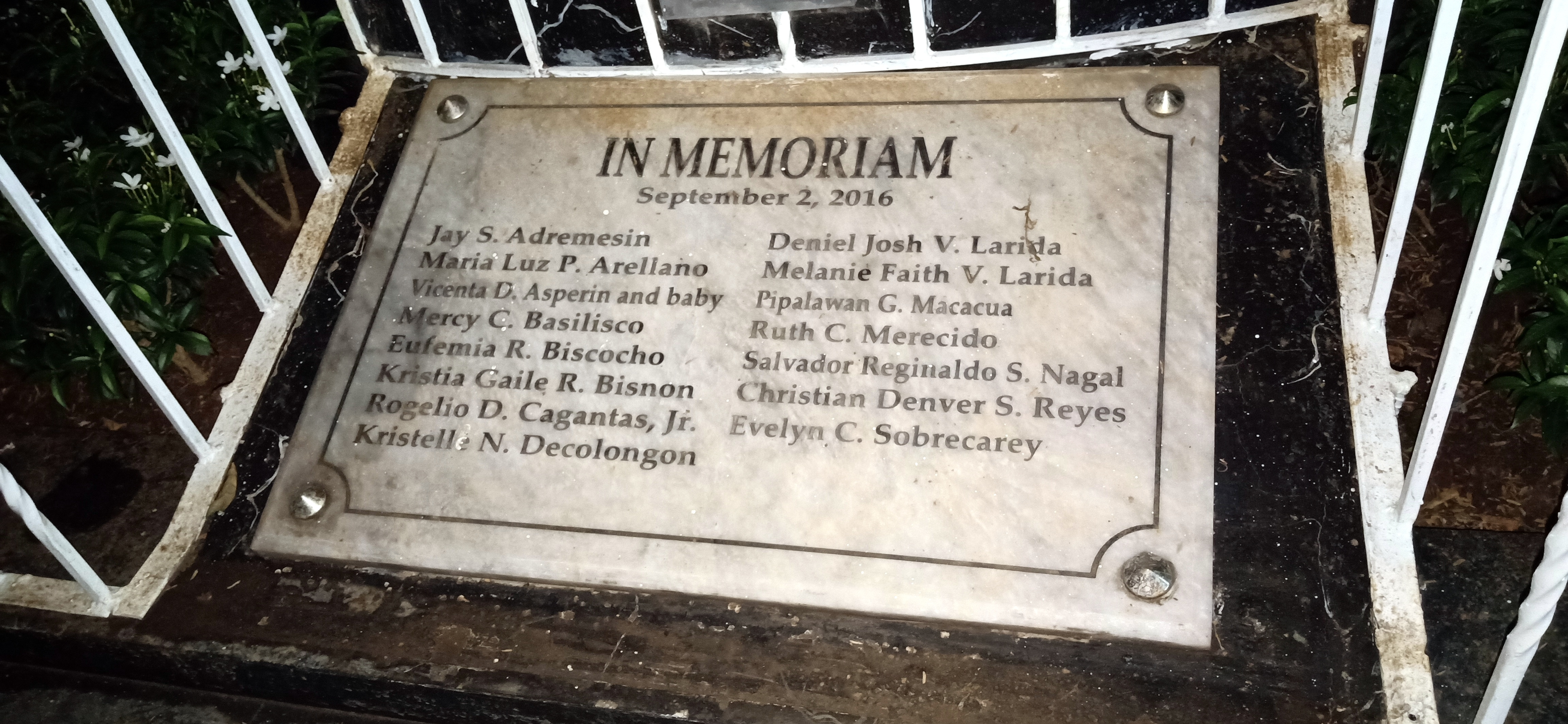 The Memorial Plaque for the victims of the Bombing at the Roxas Avenue Night Market in Davao City in 2016